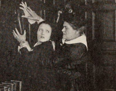 Still from the American drama film Daughter Angele (1918) with Pauline Starke and Lule Warrenton, on page 35 of the September 14, 1918 Exhibitors Herald.